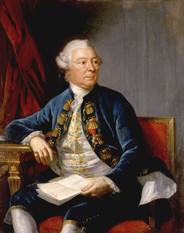 Le Prince Honoré III agé de 61 ans